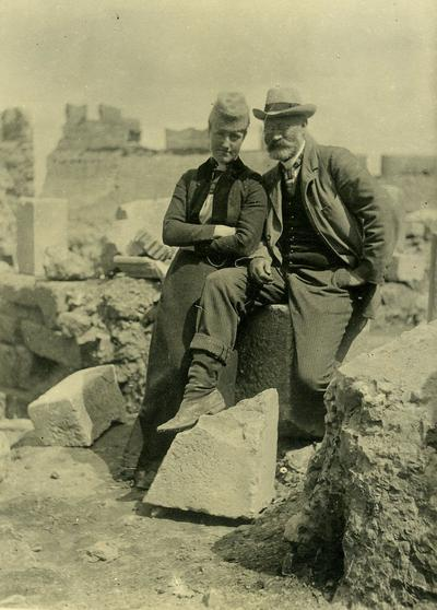 Photograph of the Danish painter Helvig Kinch (1872-1956) with her husband, the archaeologist Karl Frederik Kinch (1853-1921) at the Limbos acropolis on the Greek island of Rhodes